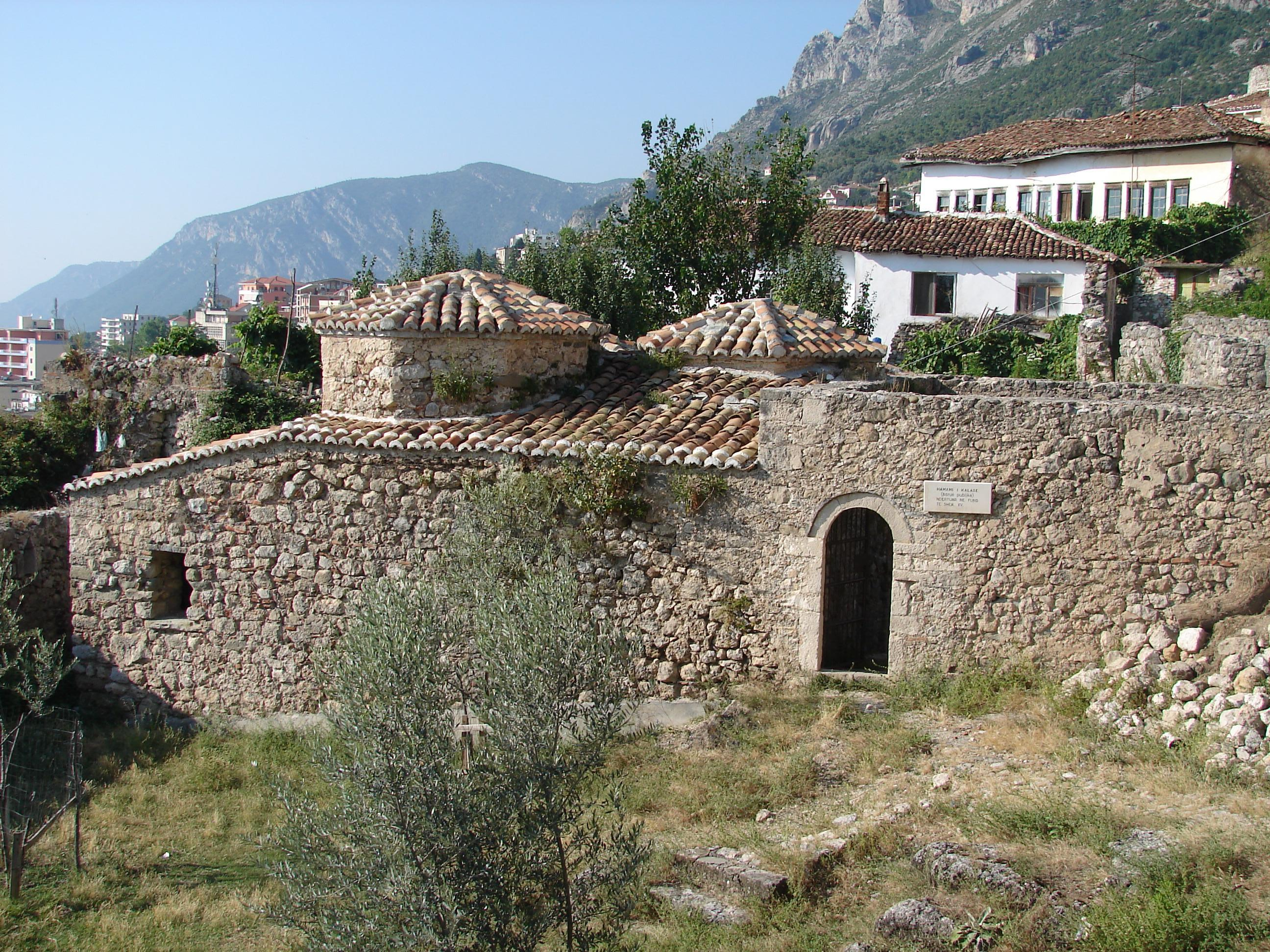 late 15th century hamam (Turkish bath) of the Kruja Castle, Albania